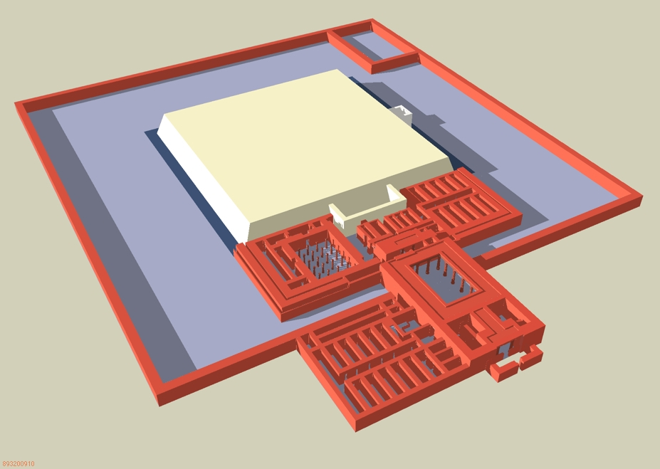 Restored view of Neferefre's unfinished pyramid and mortuary temple at Abusir - 5th dynasty of Egypt